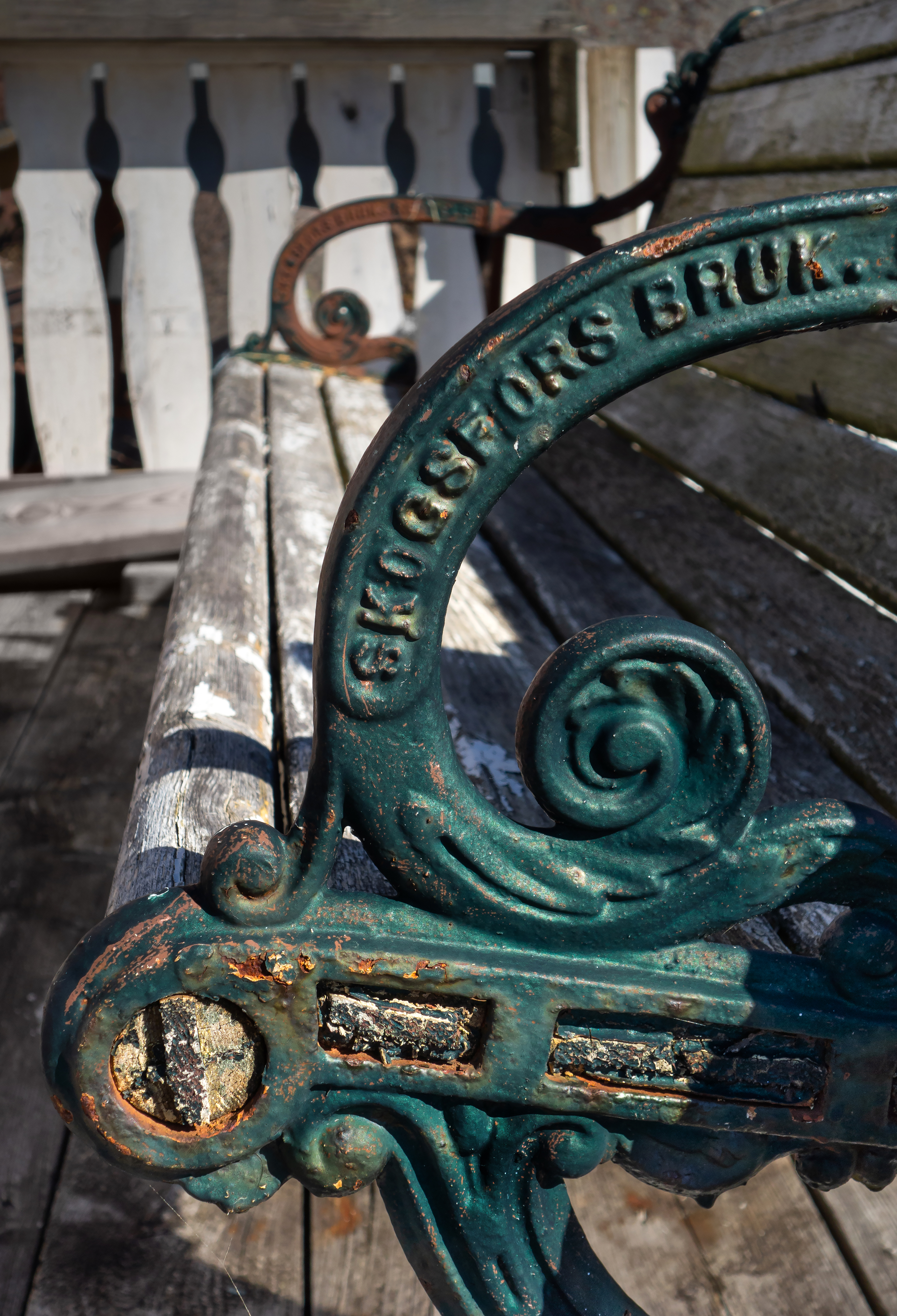 Detail of old cast iron bench made by Skogsfors Bruk. Bench is in Loddebo, Lysekil Municipality, Sweden.